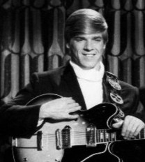 Publicity photo of Lenny Davidson of The Dave Clark Five from their cameo performing appearance in the US film Get Yourself a College Girl.